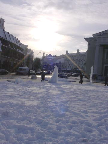 Vilnius main place by the winter. You can see as well on the back an exposition of ice statues.